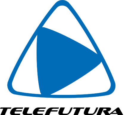 TeleFutura Logo.